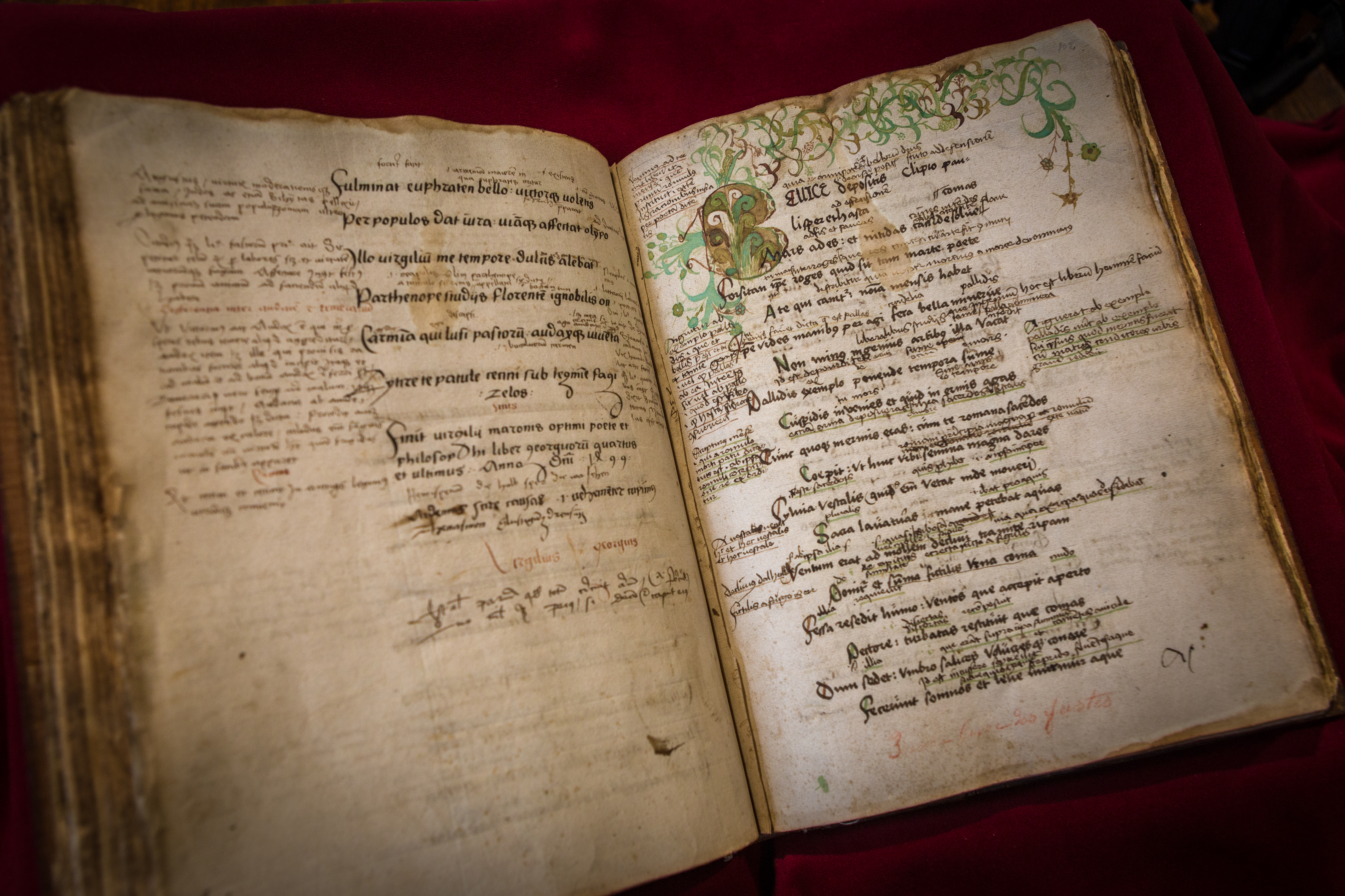 School notebook of Beatus Rhenanus, student at the Latin School of Sélestat (1498-1499) Texts, drawings and comments of the hand of the student, 13 years old. Paper. Left page: end of Virgil's Georgiques: right page: beginning of Fastes by Ovid. Coll. Bibliothèque humaniste de Sélestat, Ms 50.